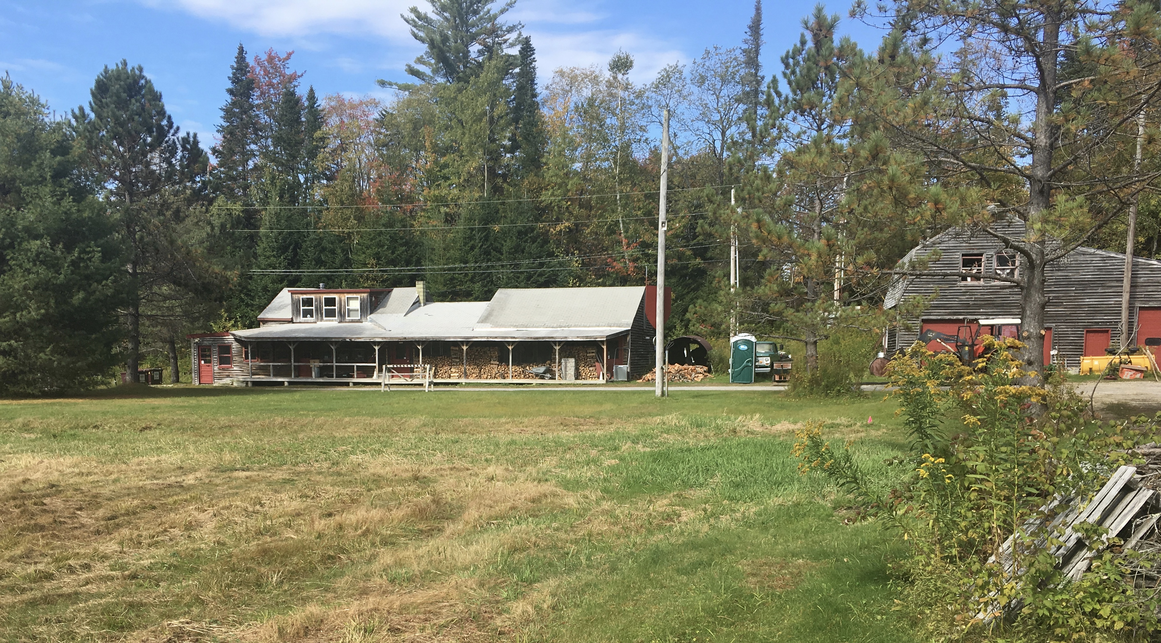 Offices at the base of Prospect Mountain, Woodford, Vermont.